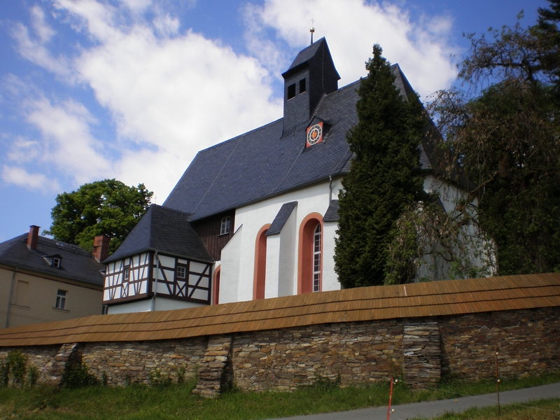 st. Katherine church, Eichigt, Saxony, Germany